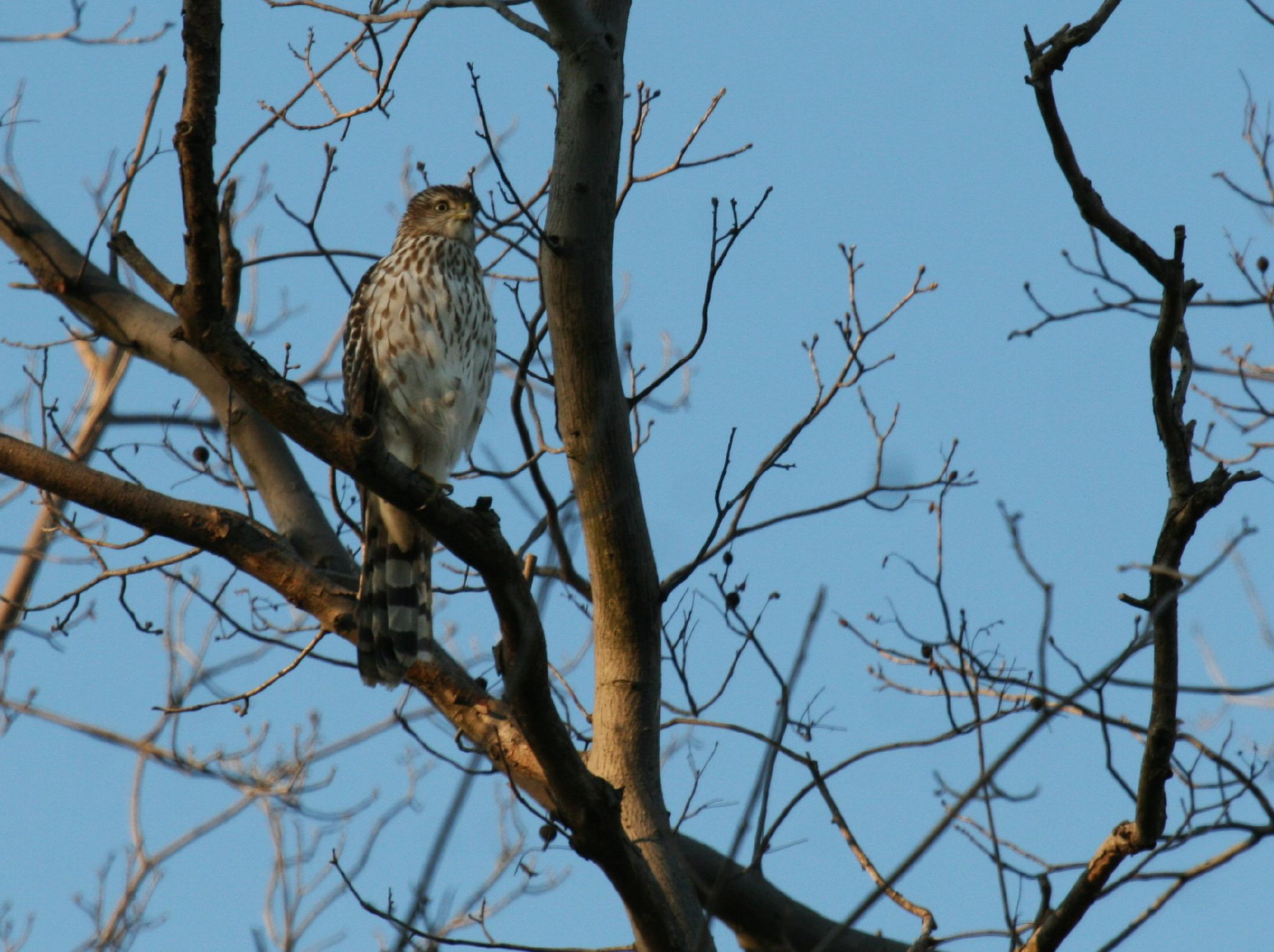 Accipiter striatus, juvenile; Lexington Park, St. Mary's Co., Maryland